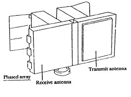 Drawing from the CIA document "The Flat Twin ABM Radar: Not as Capable as Previously Believed". Azov radar array.